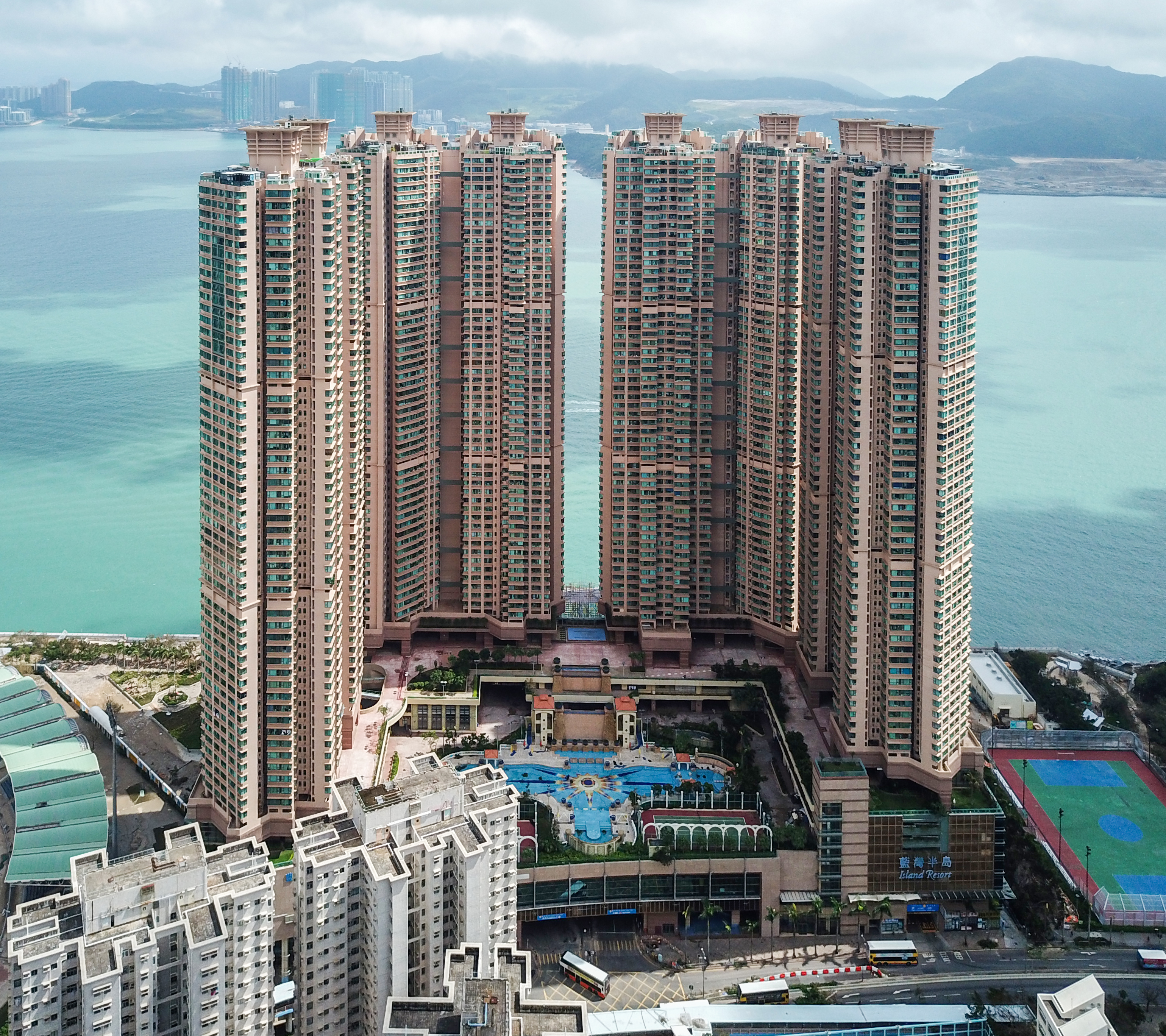 Island Resort